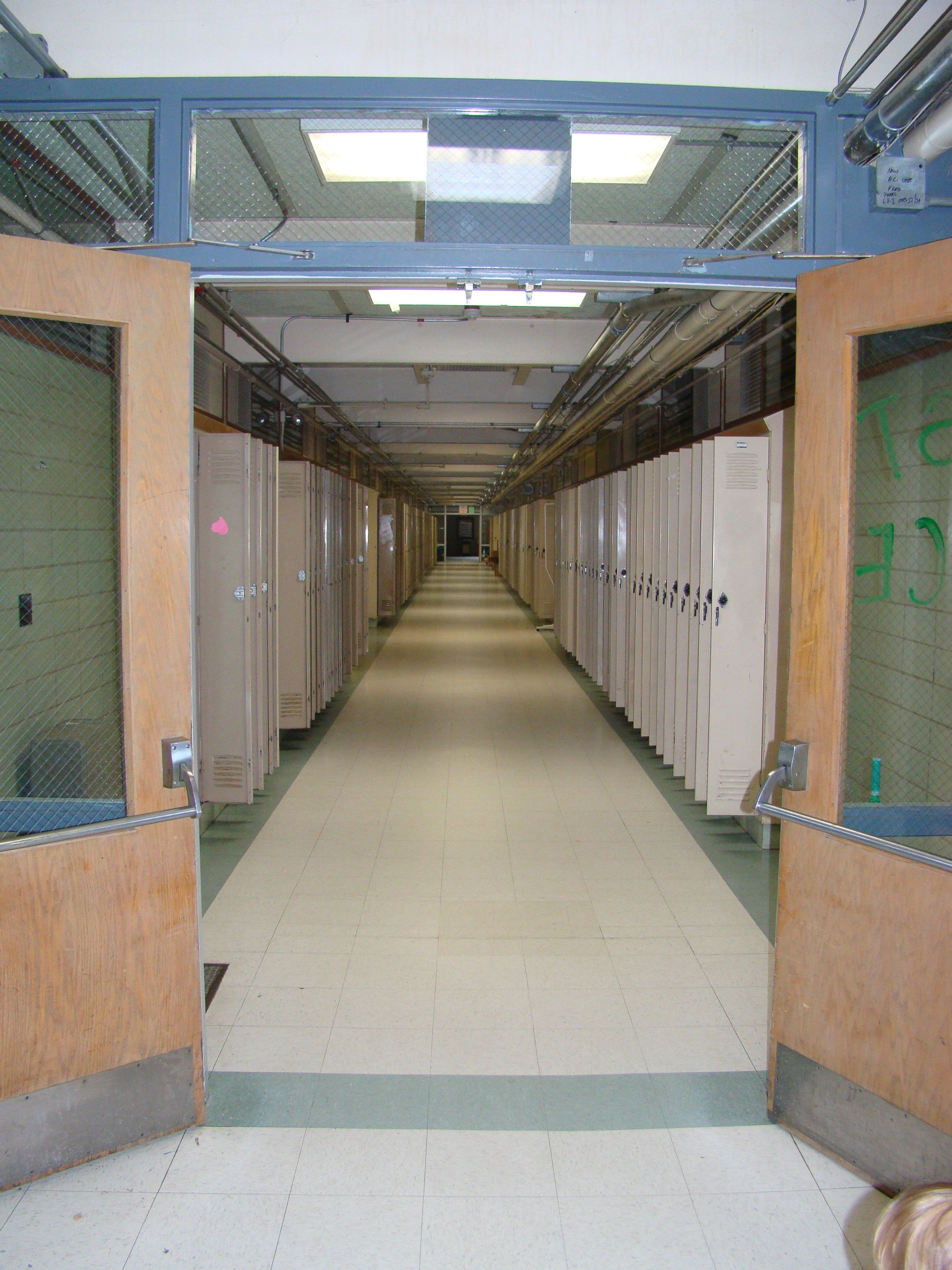 Old MERHS Main Hallway